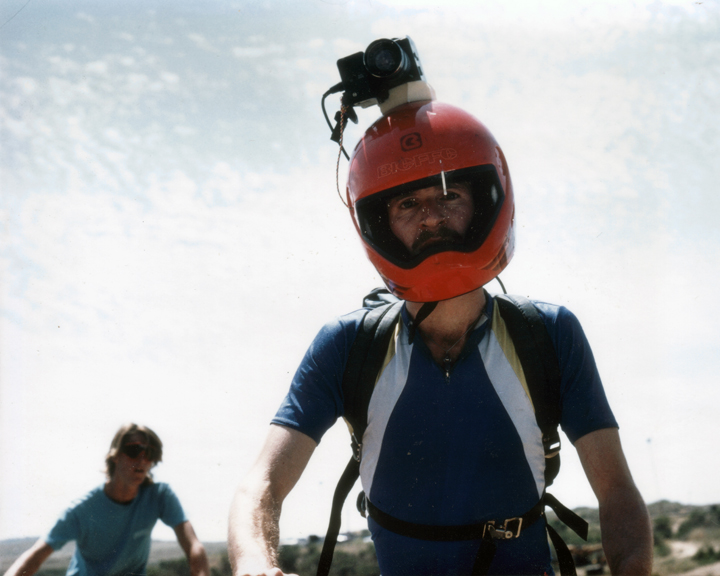 Mark Schulze, a Director of Photography and owner of New & Unique Videos, a San Diego video production company, invented this helmet cam which was worn in various videos including "The Great Mountain Biking Video," "Ultimate Mountain Biking: Advanced Techniques and Winning Strategies," "Battle At Durango: First-Ever World Mountain Bike Championships," and "Full Cycle: A World Odyssey."